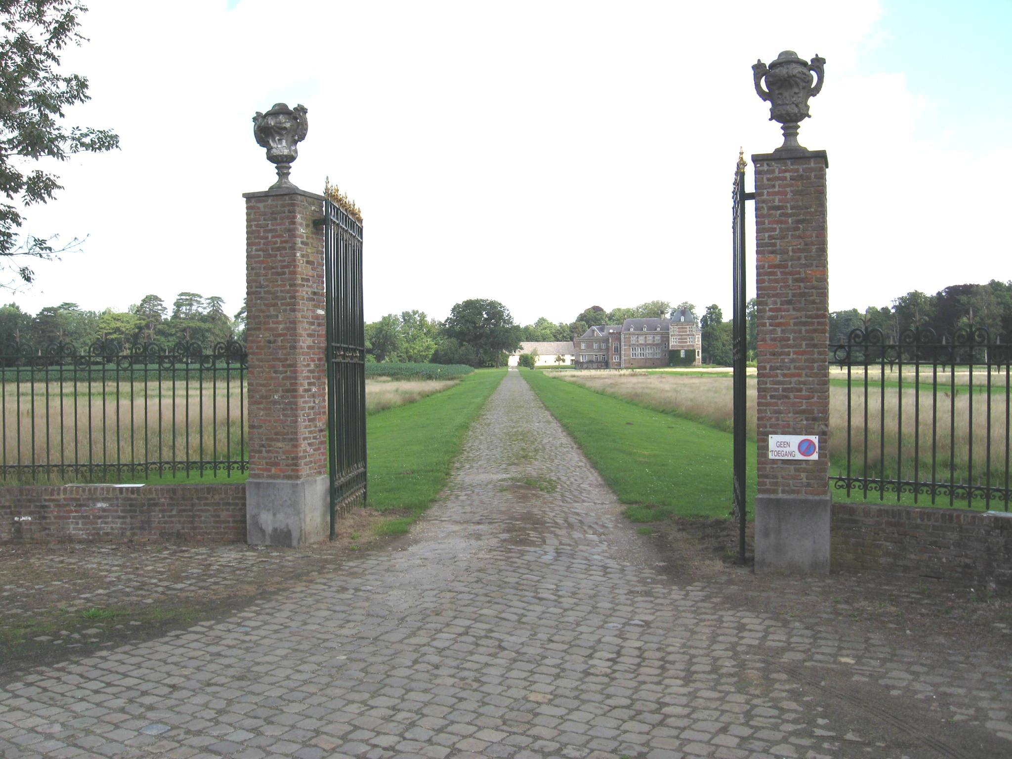 Castle of Vogelsanck in Zolder, Heusden-Zolder, Limburg, Belgium